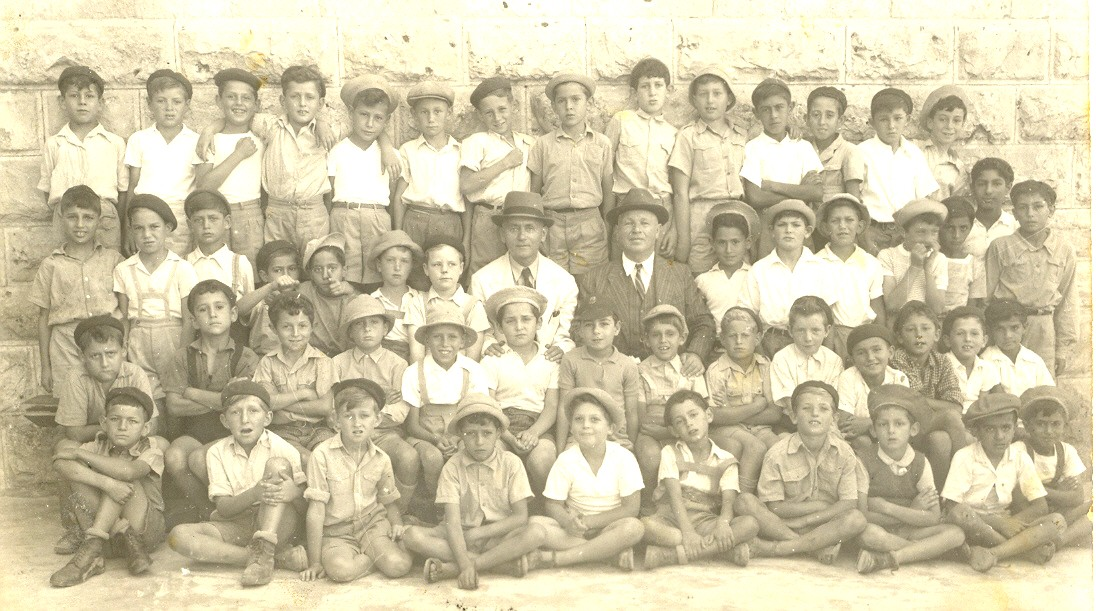 3rd grade of תחכמוני school in Jerusalem. featuring Joseph Dan and מרדכי טמקין.